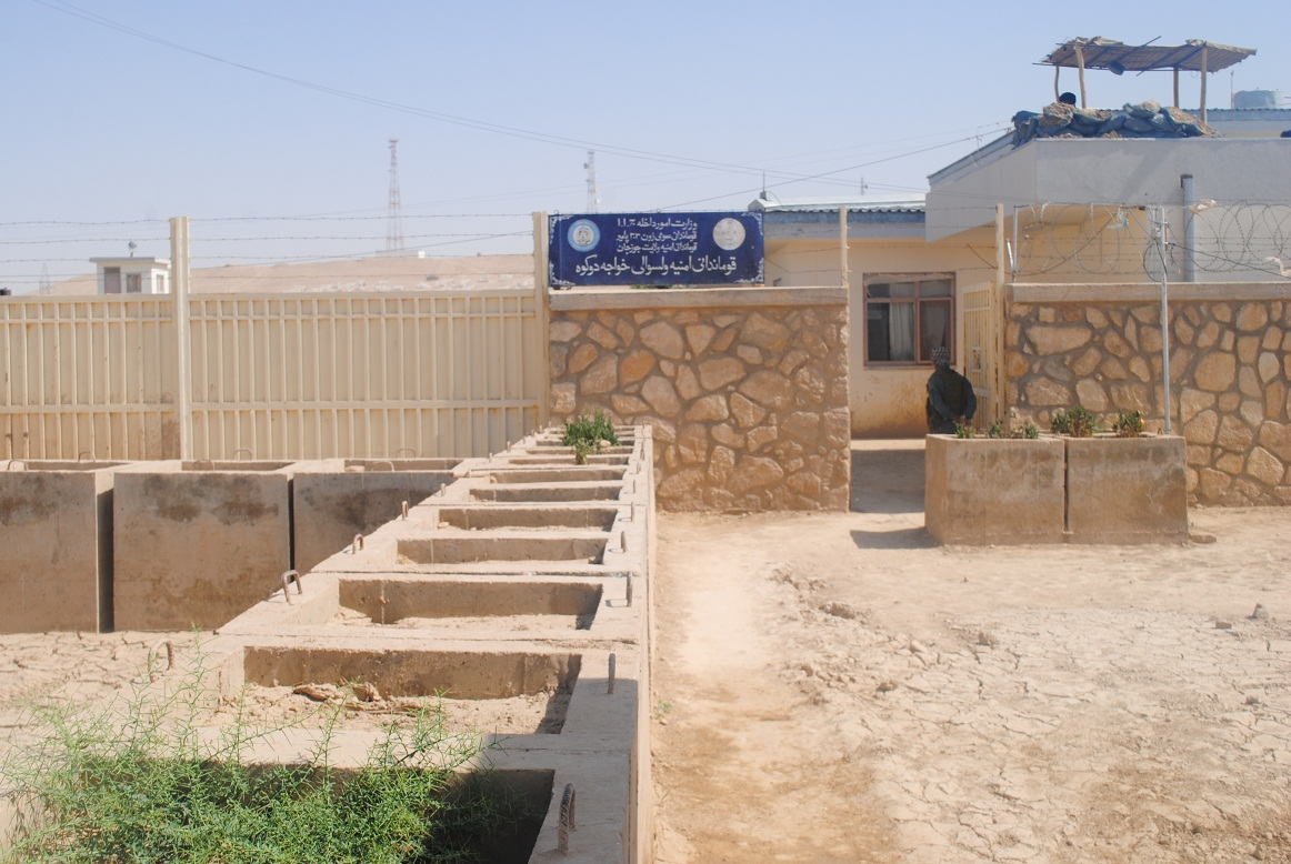 Khwaja du koh District Security Command